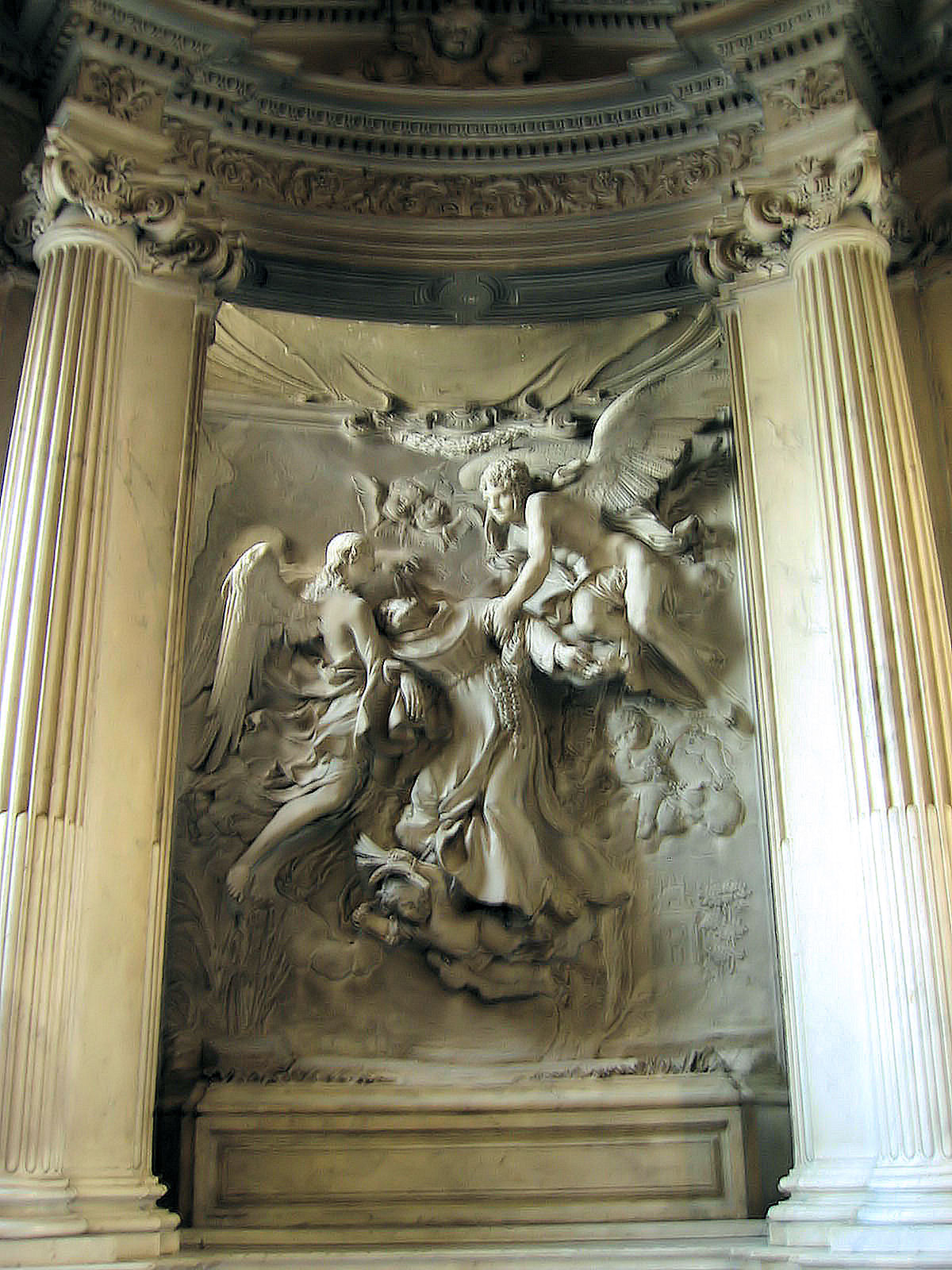 Francesco Baratta - "St. Francis in Ecstacy" (1642-1646). San Pietro in Montorio, Rome. Picture taken by User:Torvindus.